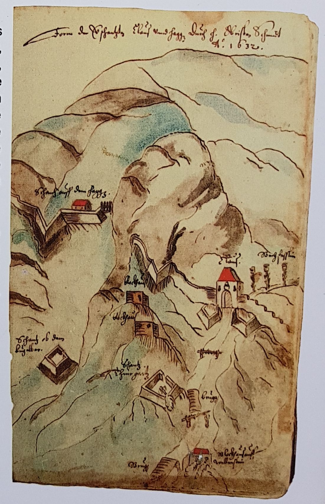 Historical representation of the military blocking position at Klausberg ("Klause") 1647 in Lochau, Vorarlberg, Austria.